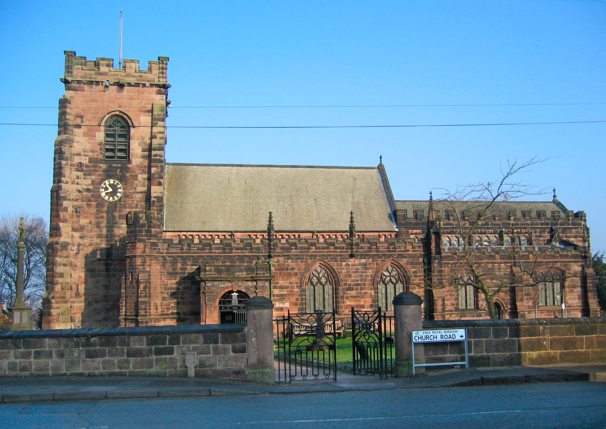 photograph